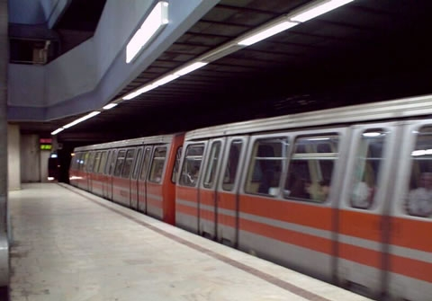 Train at Universităţii metro station on the Bucharest Metro network.